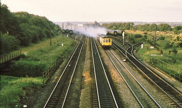 Oxford carriage sidings from the north In the dawn light of a June day in 1980, a Banbury local train leaves Oxford past the then-extensive carriage sidings. In the foreground, the Castle Mill Stream is bridged by the ex-Great Western main line and, on the far left, the trackbed of the former L&NWR route into Oxford Rewley Road station.